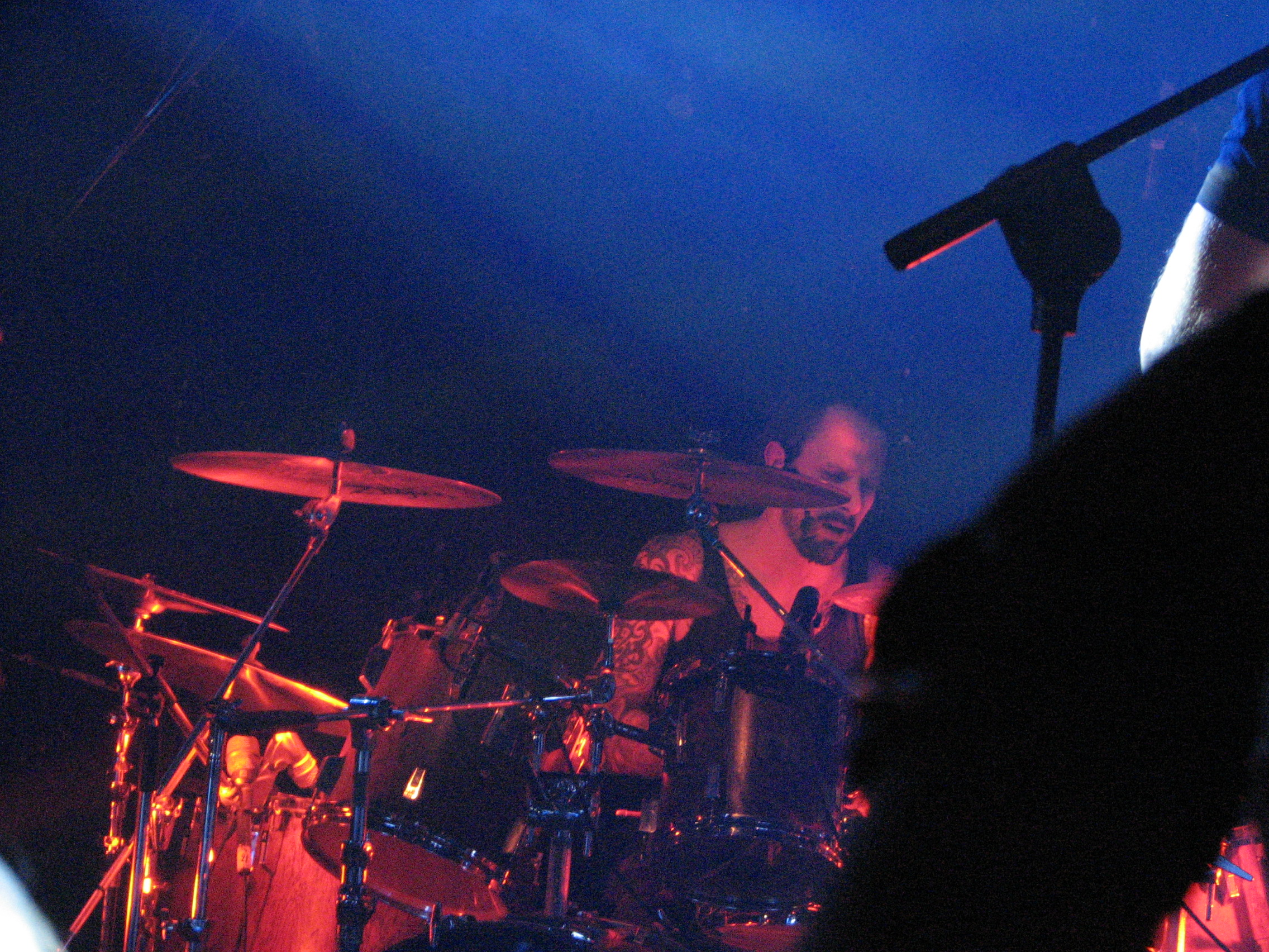 Johan Langell from a Pain of Salvation convert in Thessaloniki on 31-March-2007